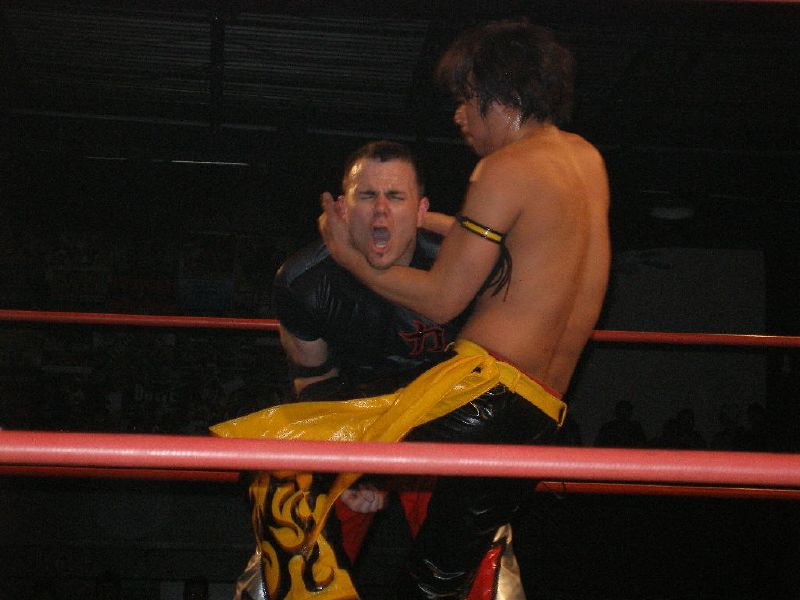 Professional wrestler KUDO performing a knee strike on Mike Quackenbush.